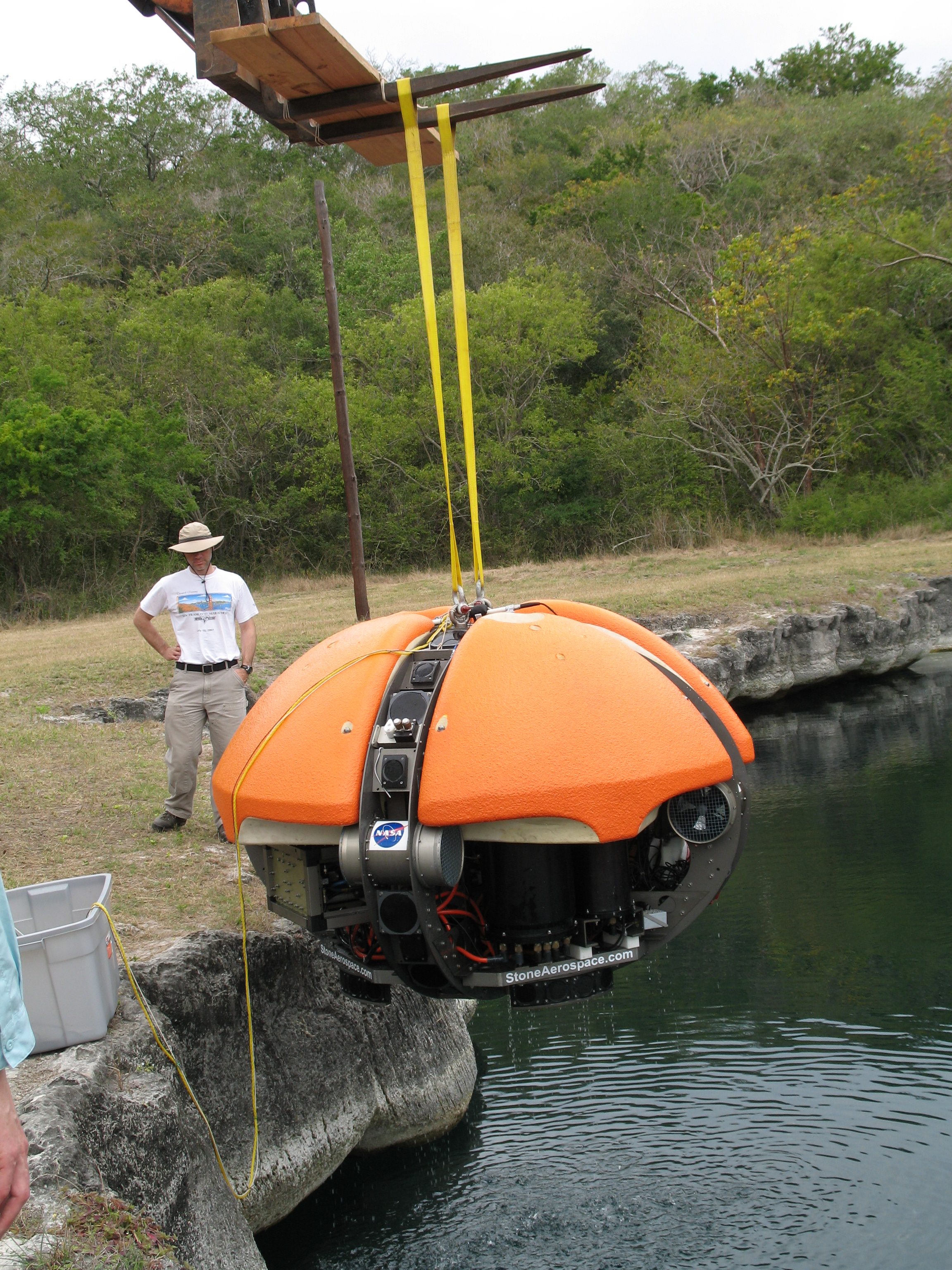 Deep Phreatic Thermal Explorer (DEPTHX) robot being lowered into La Pilita, one of several water-filled sinkholes in Sistema Zacaton (in northeastern Mexico).